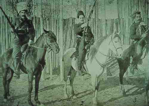 Armenian armed horsemen in Van.